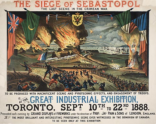 Poster for a Pyrotechnic Pageant at the Toronto Industrial Exhibition (coloured lithograph)